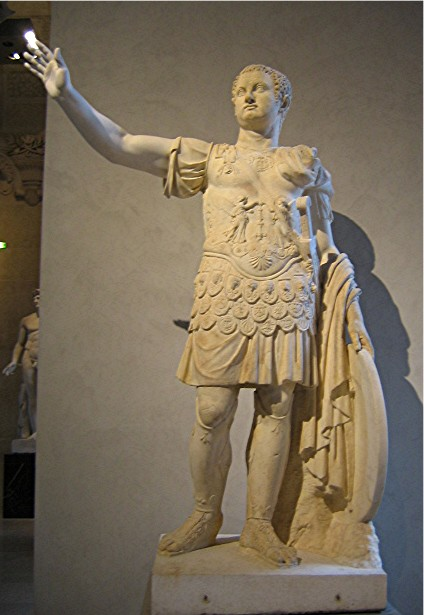 Emperor Titus. Marble, Roman artwork, late 1st century CE. From Rome?